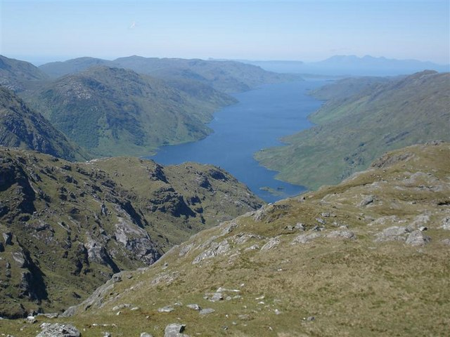 Ile Coire and Loch Morar The steep west side of Carn Mor drops precipitously into Ile Coire. At its foot, Loch Morar is the deepest loch in Scotland. Eigg and Rum are visible in the distance.